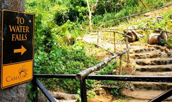 Going to Camaya waterfalls